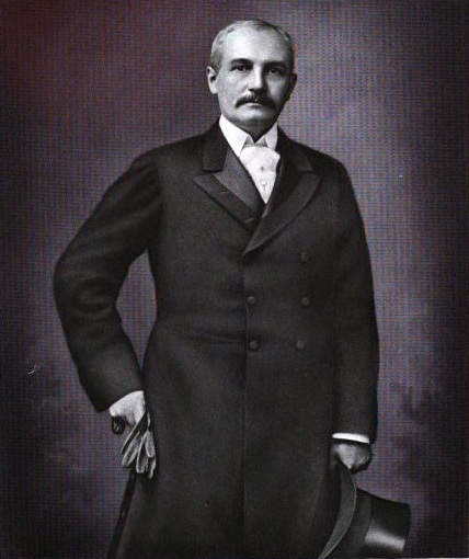 John Sanford (1851-1939), Congressman from New York.